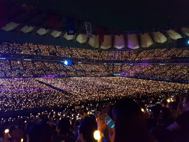 65,000 fans in BIGBANG Concert 0.TO.10 in Seoul - August 20, 2016